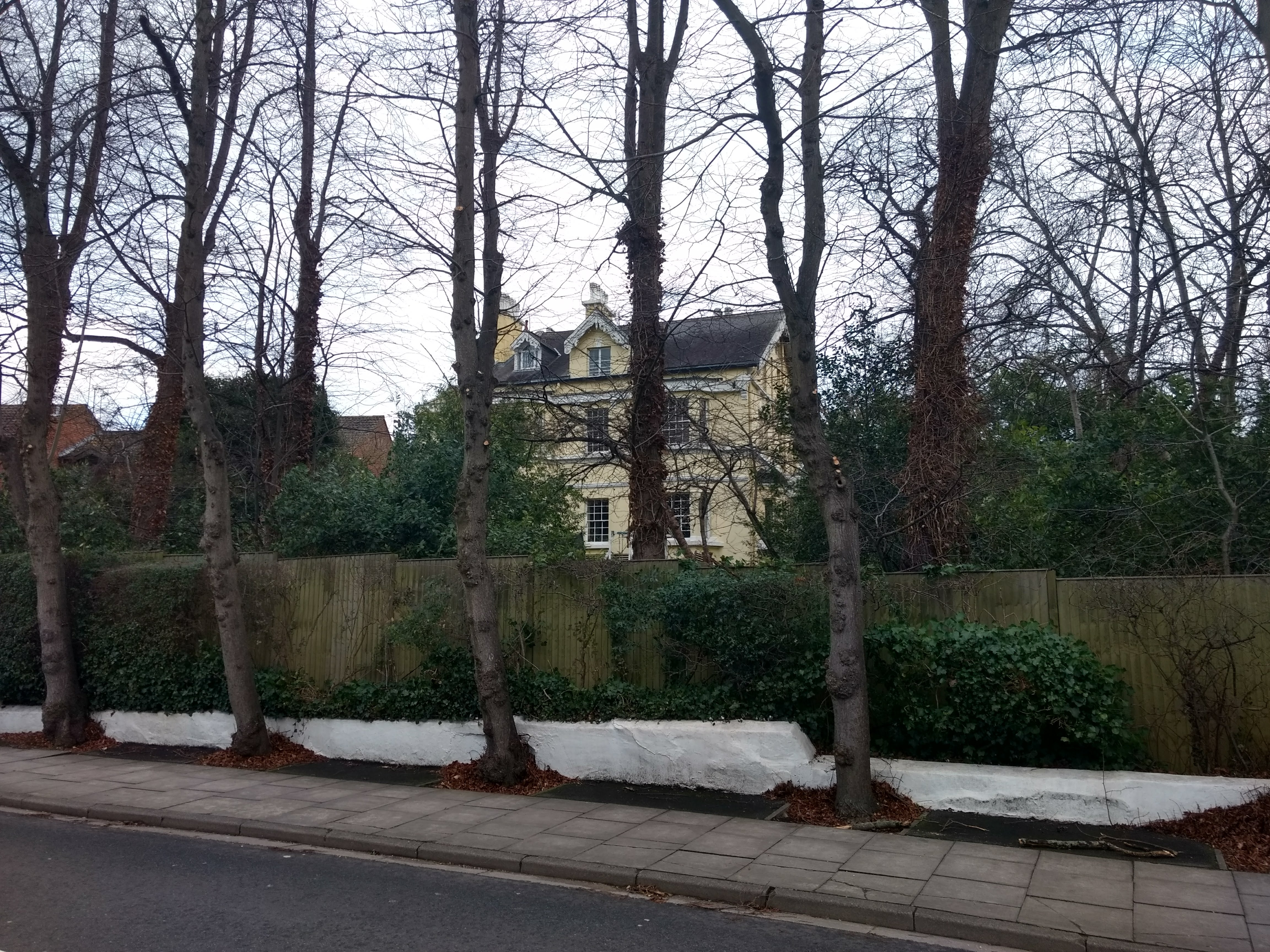 London